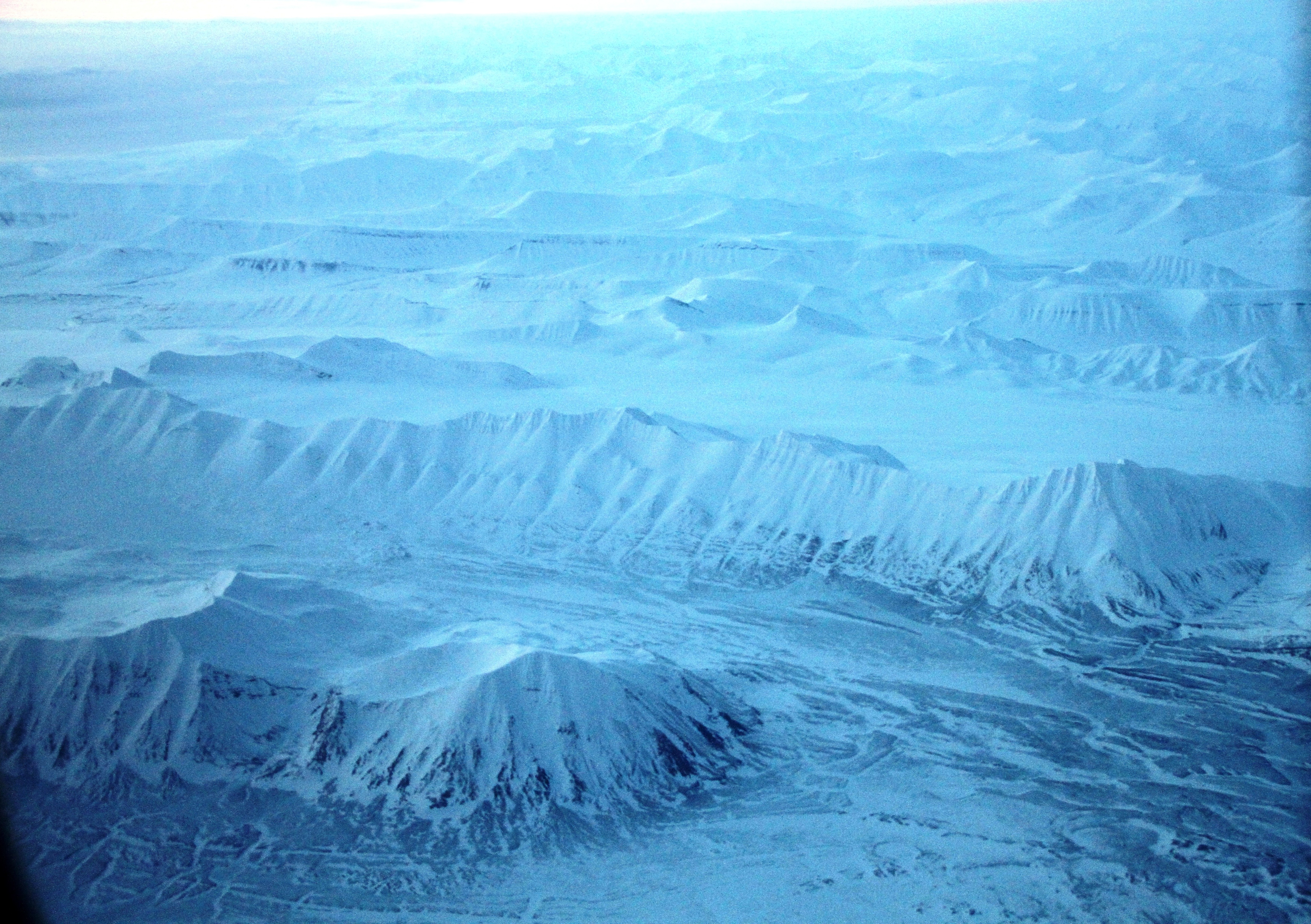 Image from the west towards east, of the Southern shores of Nordenskiöld Land towards Bellsund - western Spitsbergen, Norway.